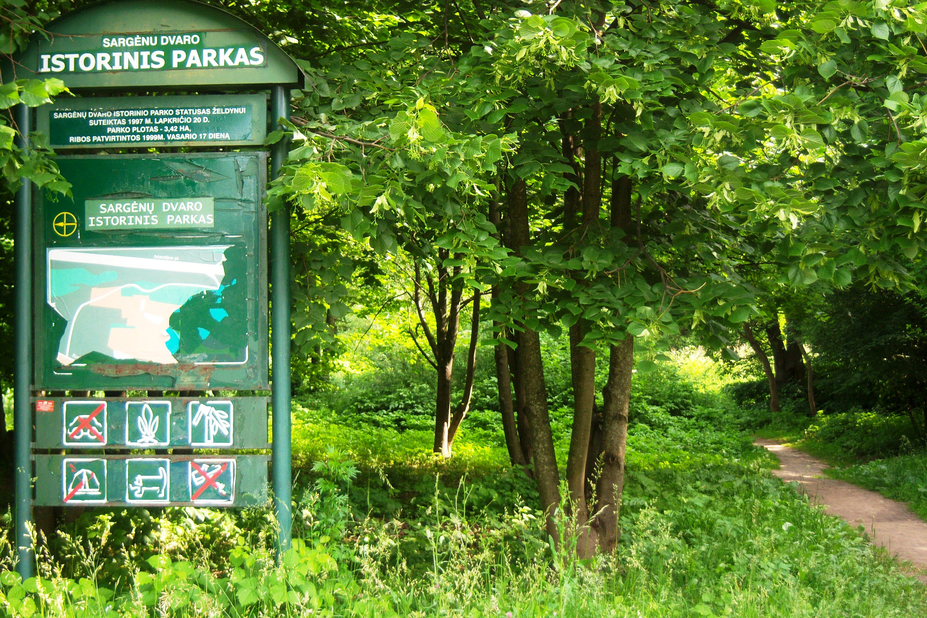 Path to the former Sargėnai manor , Kaunas. Lithuania